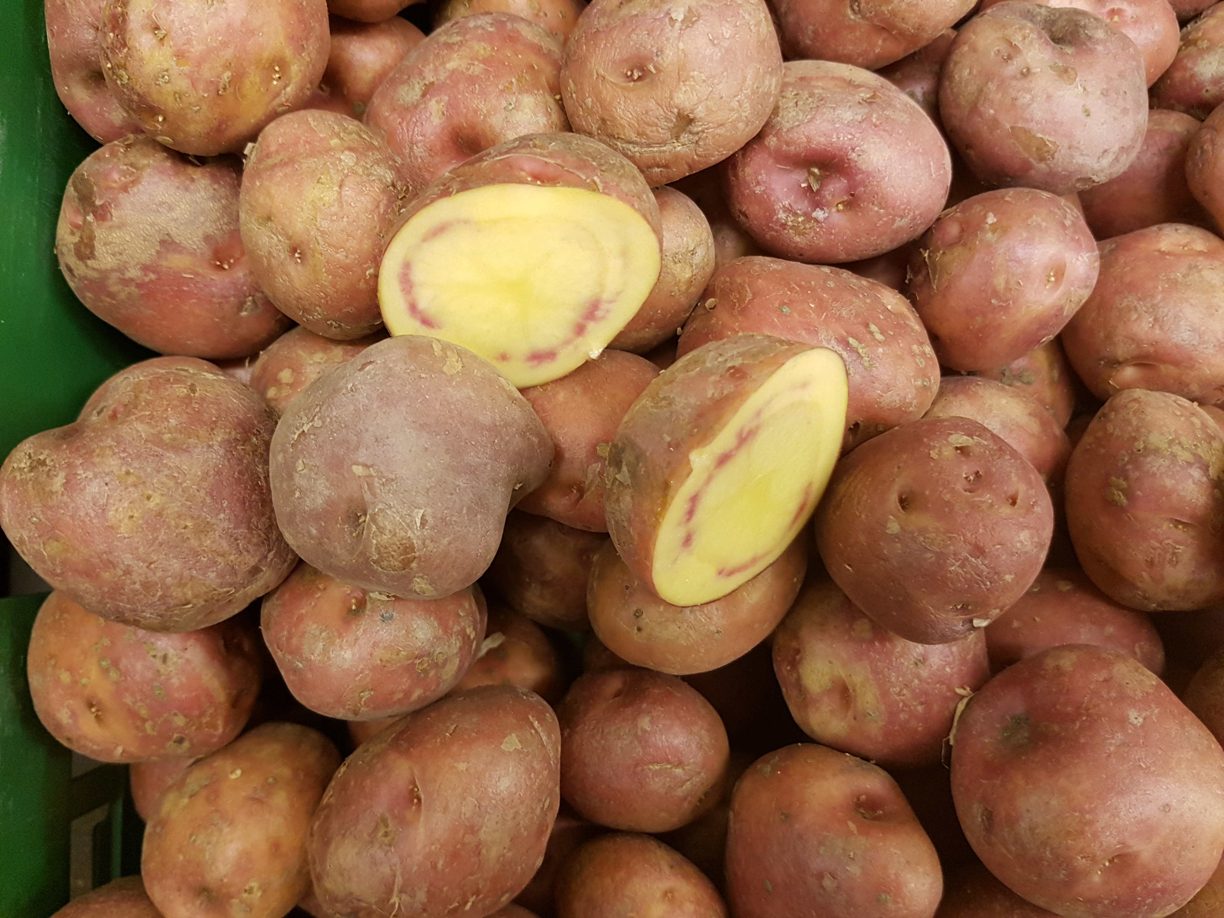 Rauðar Íslenskar, a potato variety.